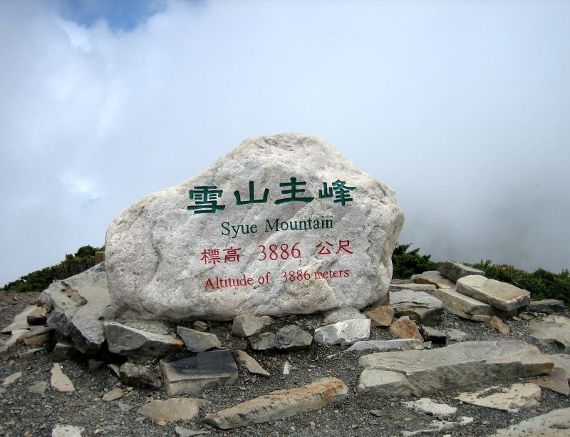 Summit marker of Xueshan, Taiwan's second-highest mountain.